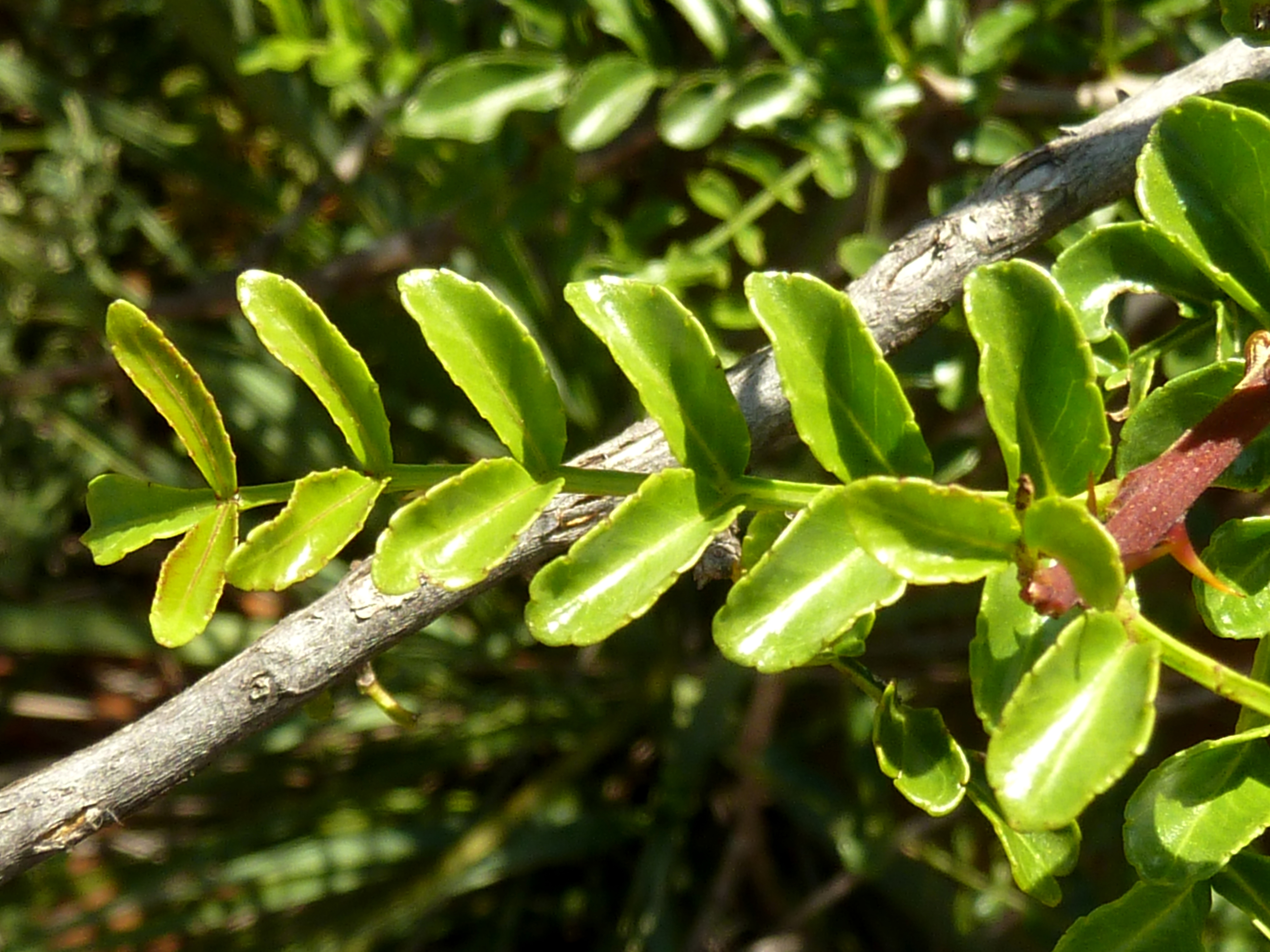 Compound leaf of a Small knobwood in Groenkloof Nature Reserve